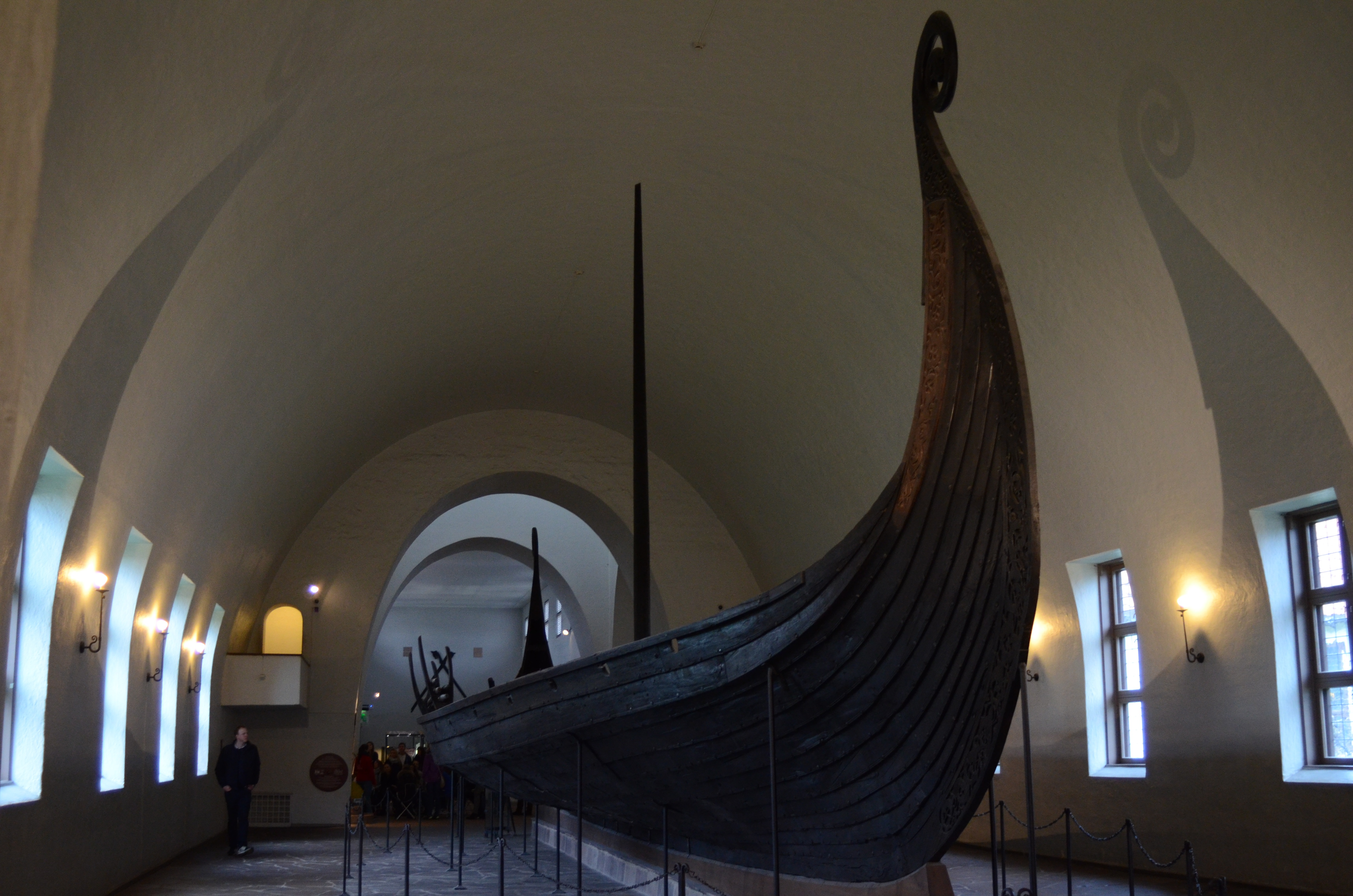 The Oseberg ship